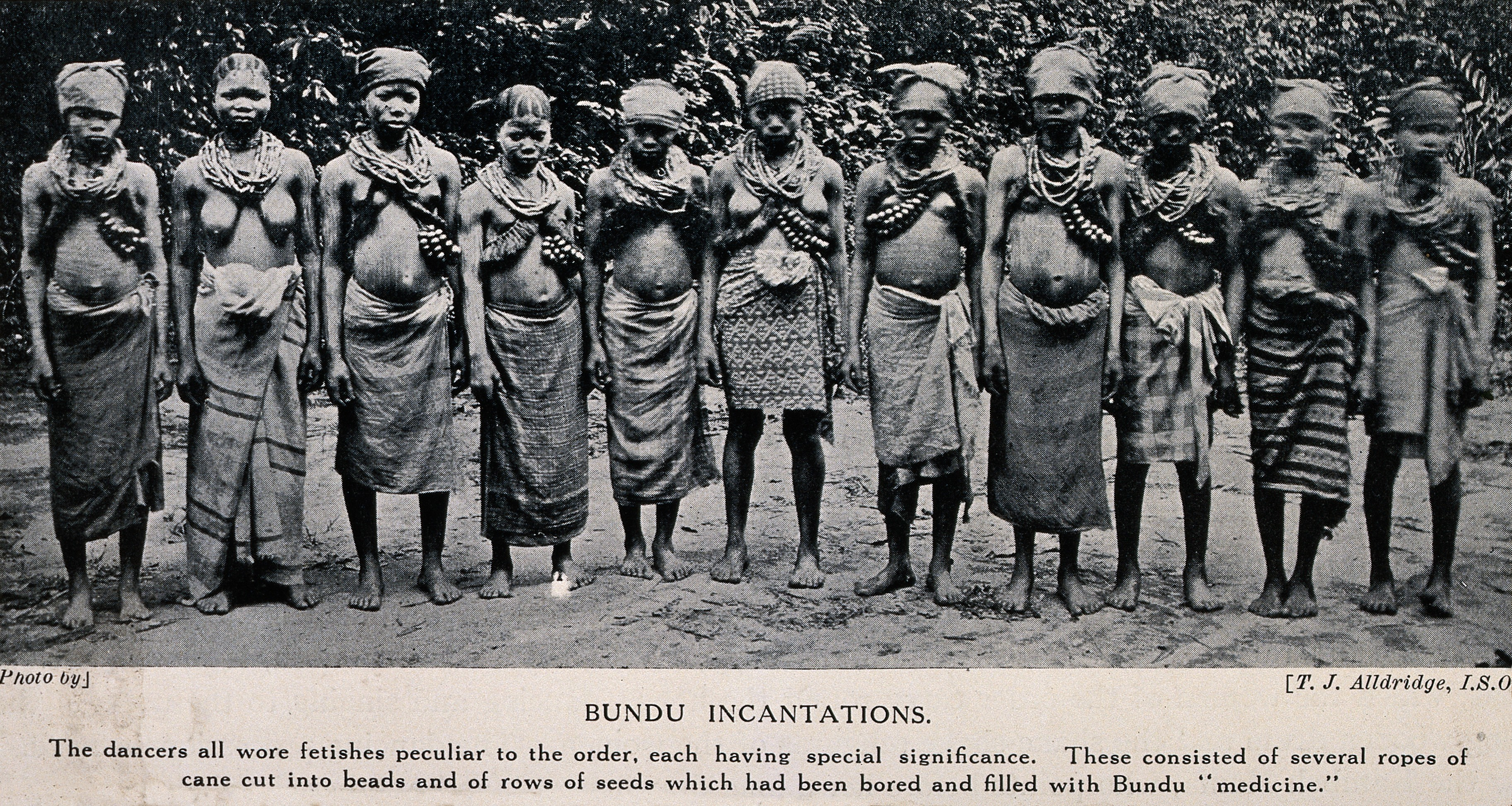 A group of Bundu female dancers all wearing necklaces of beads which are filled with medicines. Halftone after a photograph by T.J. Alldridge. Iconographic Collections Keywords: ic; PRIMITIVE MEDICINE; T.J. Alldridge; Medicine, Traditional; Dancing